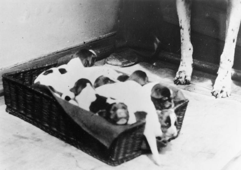 A photograph showing the puppies of Judy, the canine VC, as they lie in a dog basket. Judy's legs are just visible to the right of the photograph. Judy was the mascot of HMS GRASSHOPPER and was a Prisoner of War in a Japanese camp.